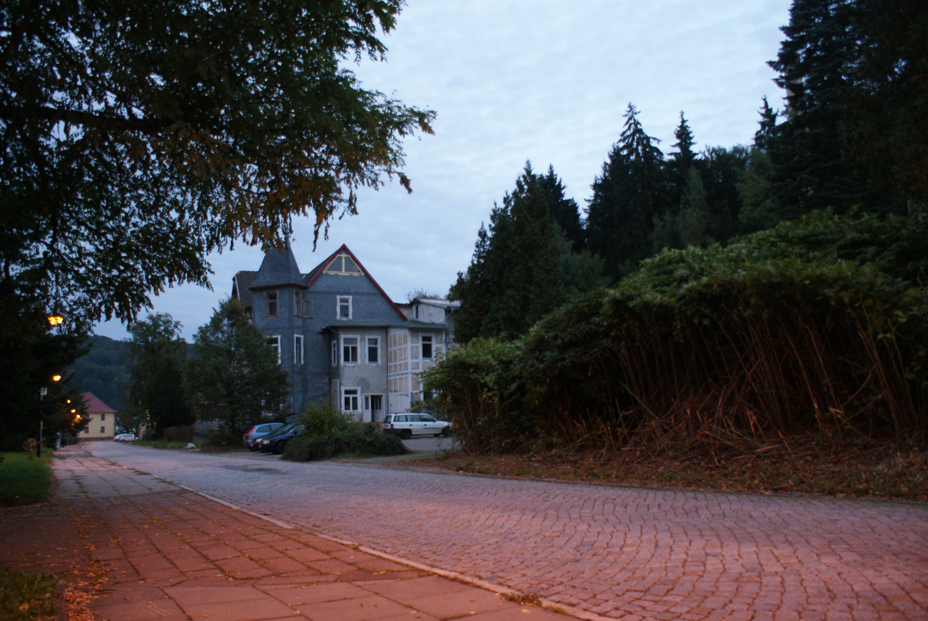 Sanatorium Waldpark in Sulzhayn the old building is getting restored.